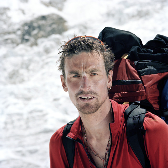 Kenton Cool, mountaineer